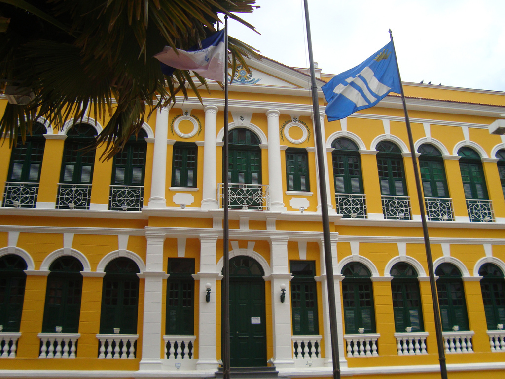 Bernardino Monteiro Building, in Cachoeiro de Itapemirim, Espírito Santo, Brazil.